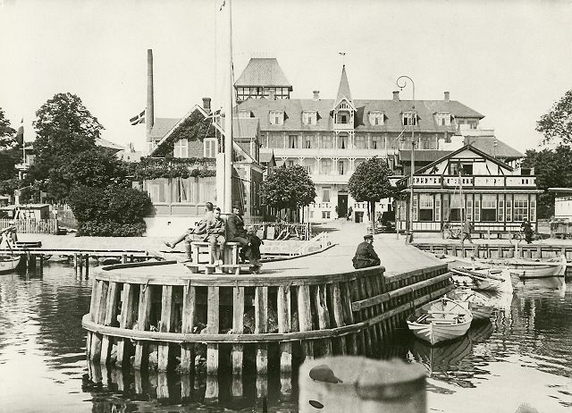 Taarbæk Havn in c. 1920. The now demolished hotel building is seen in the background. The former inn is seen to the right. It was replaced by the current in in 1940. The building to the left is now the club house of Taarbæk Sejlklub.